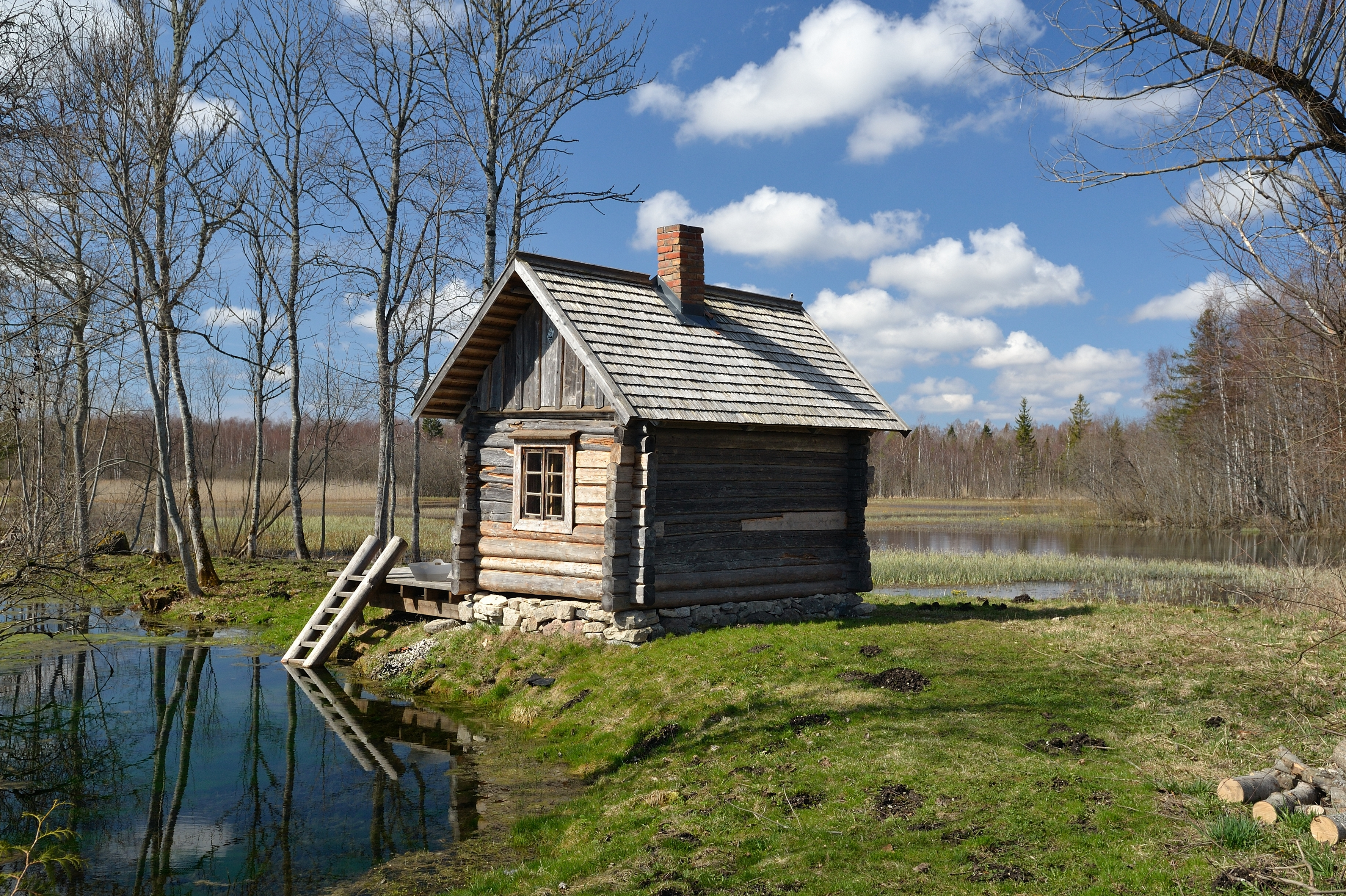 Sauna by the Esna spring lake